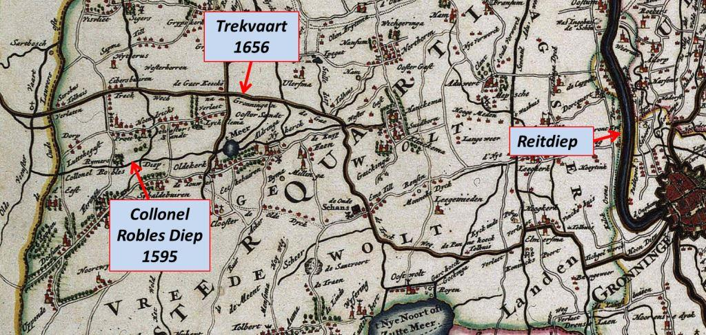 Caspar de Roblesdiep, Groningen after 1681